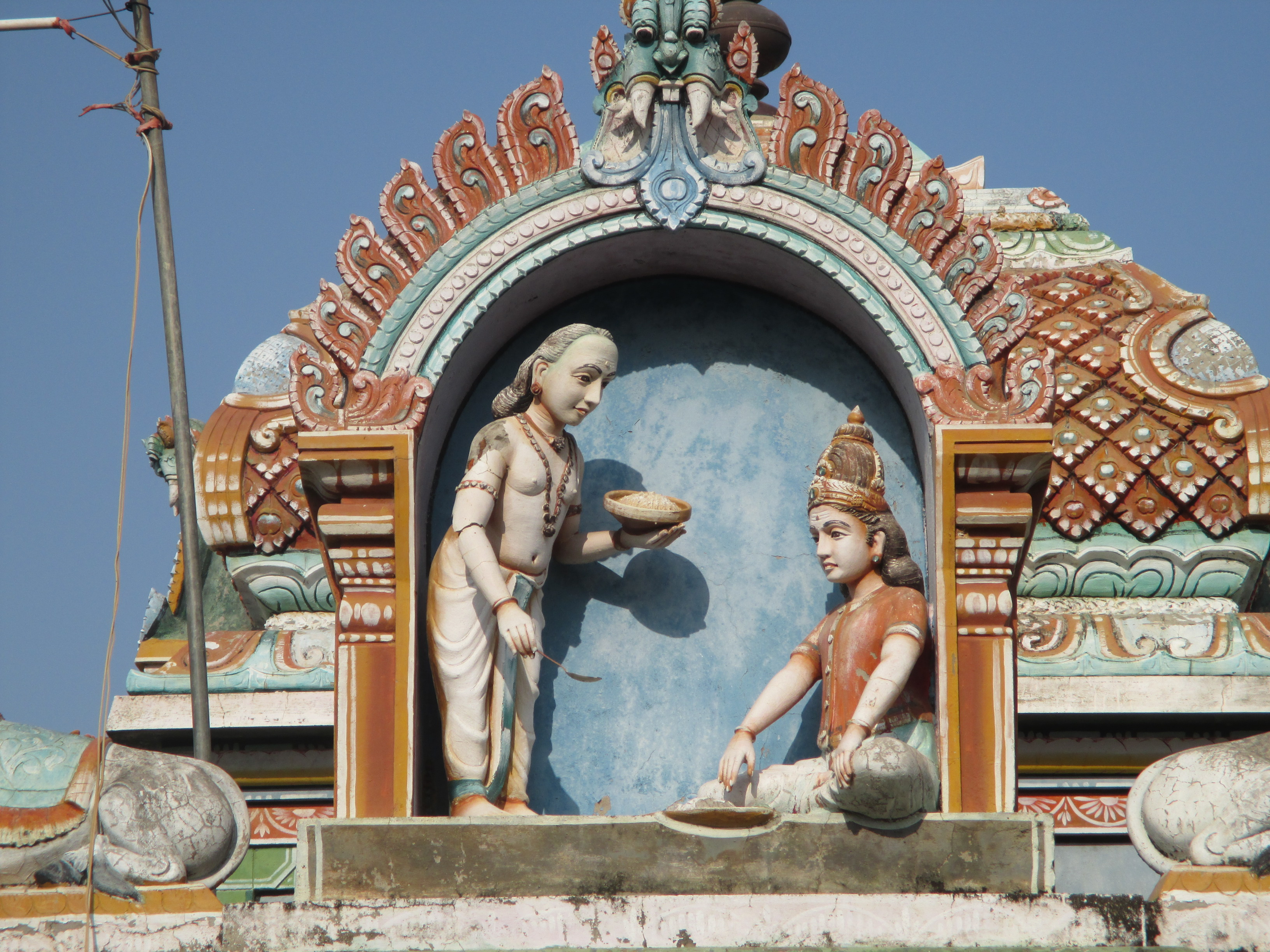 Kachabeswarar temple, Thirukachur